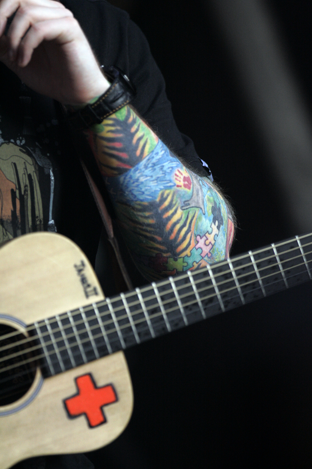 Ed Sheeran's arm